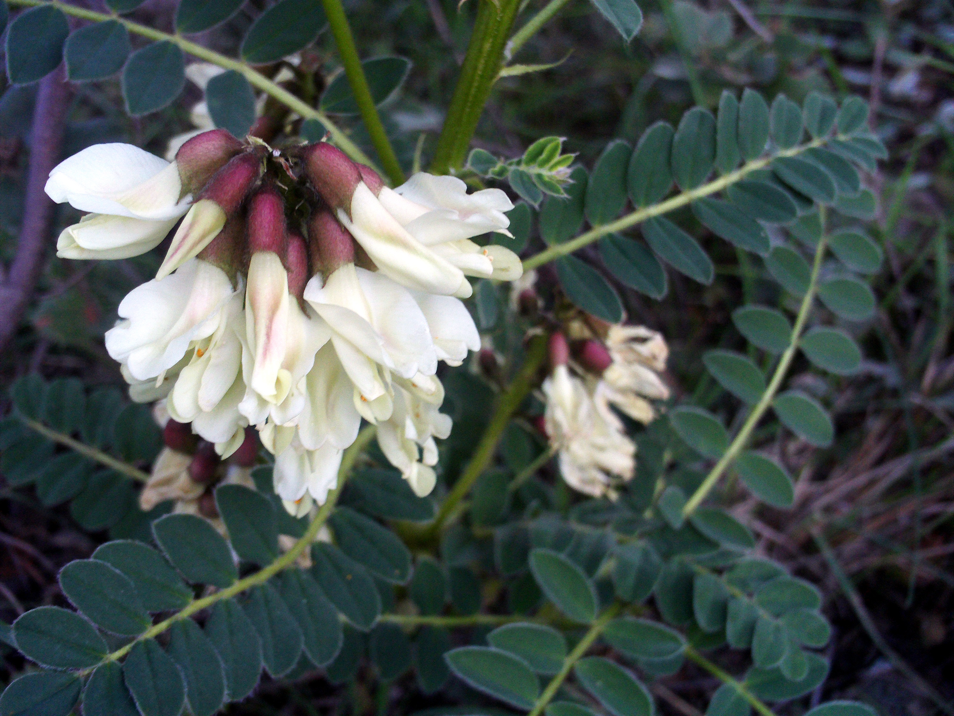 Astragalus lusitanicus flower close up, Dehesa Boyal de Puertollano, Spain